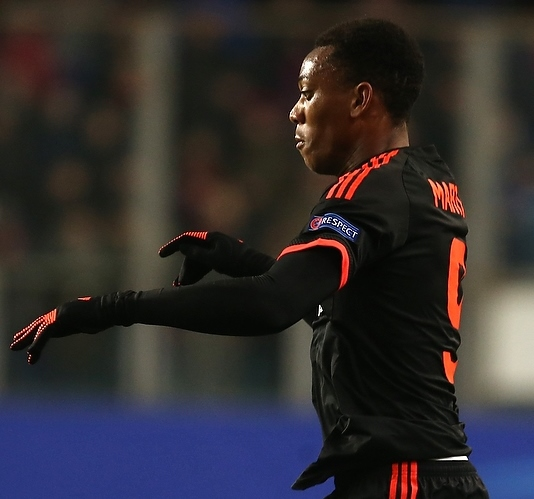 Anthony Martial